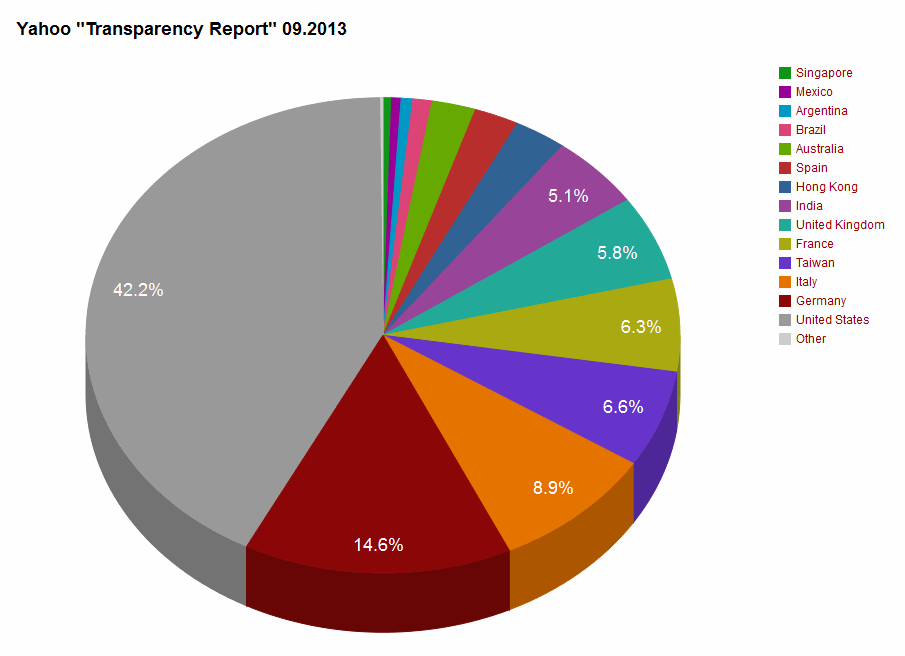 Visualisation of Yahoo's "Transparency Report" about the US government's (i. e. Secret Services such as NSA) amount of data request by country, from january till juni 2013. See Yahoo! for details.